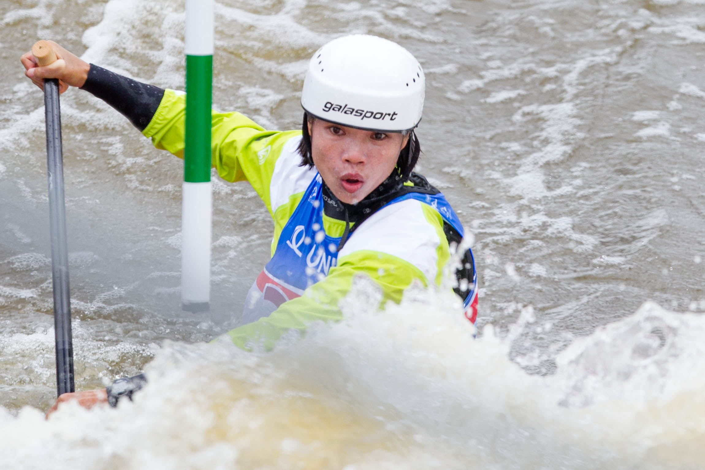 Slalom World Championships_13_30_29_007 - Cen Nanqin